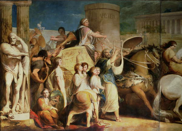 Crowning the Victors at Olympia - Hiero of Syracuse and victors